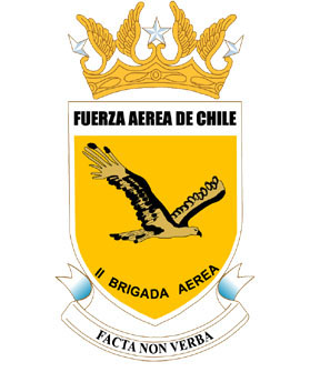 2nd Aviation Brigade FACH